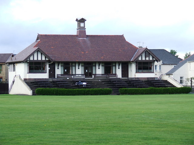 Kelburne Cricket Club With person sleeping on bench!